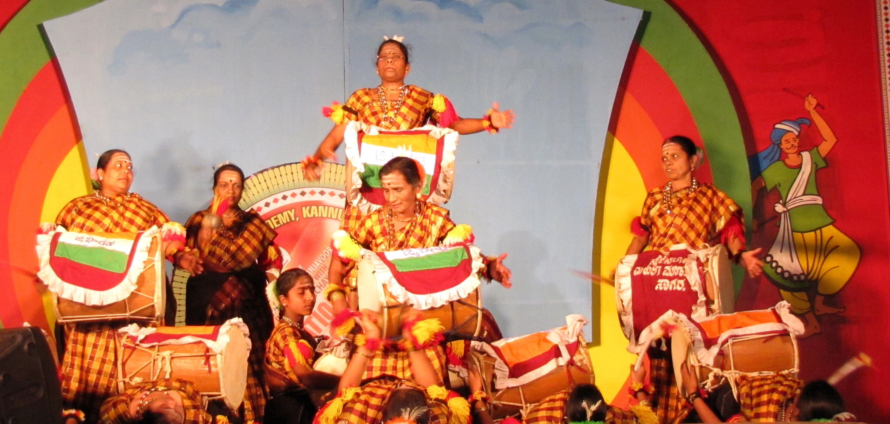 Dollu Kunitha (dance), is a major form of art, occupies the pride of place among folk dances. Dollu Kunitha is a popular drum dance of Karnataka accompanied by singing.